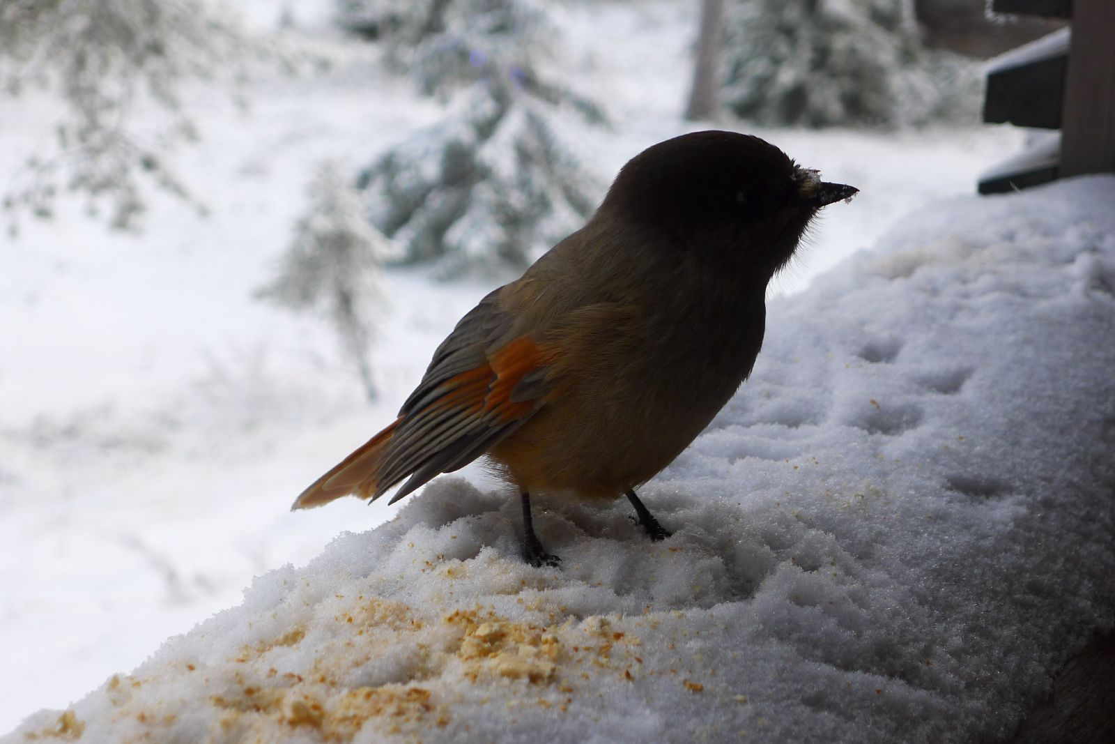 Siberian Jay in Ruka, northern Finland